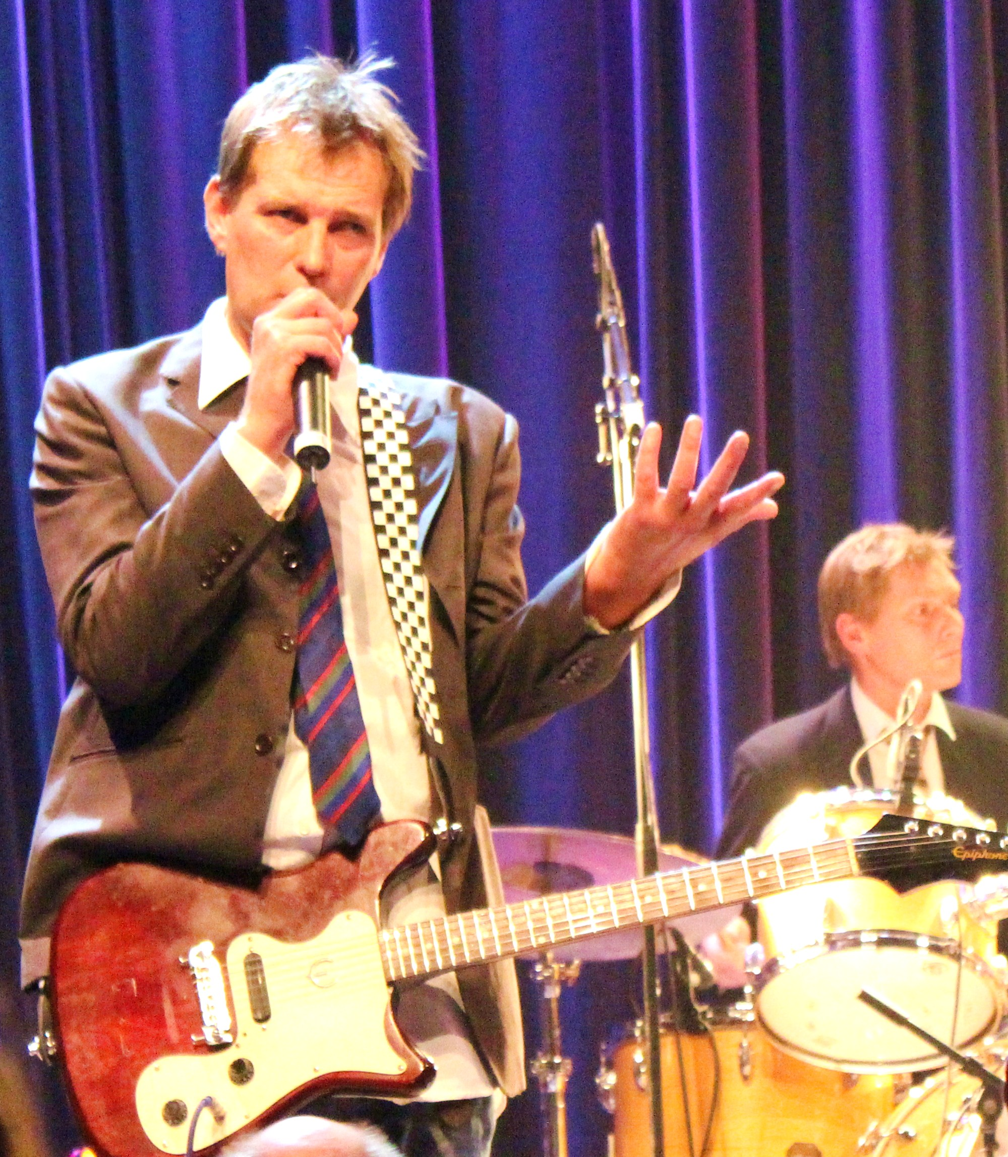 Swedish singer Joppe Pihlgren, frontman of the group Docenterna, playing at Nalen, Stockholm, September 21st 2012. Drummer Kricke Pihlgren sitting behind.